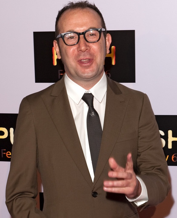 Scottish film director Paul McGuigan arriving at the premiere of his new film, Push, Mann Theater, Westwood.